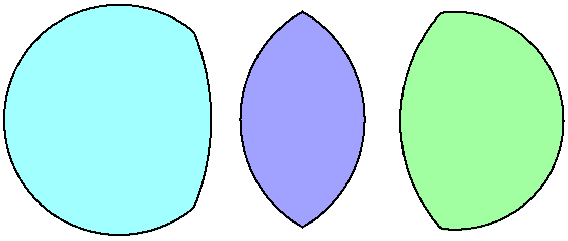 Example of symmetric and asymmetric lenses